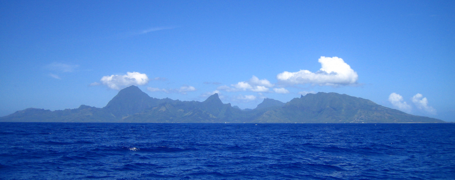 Panoramic view of Moorea, Society Islands, French Polynesia